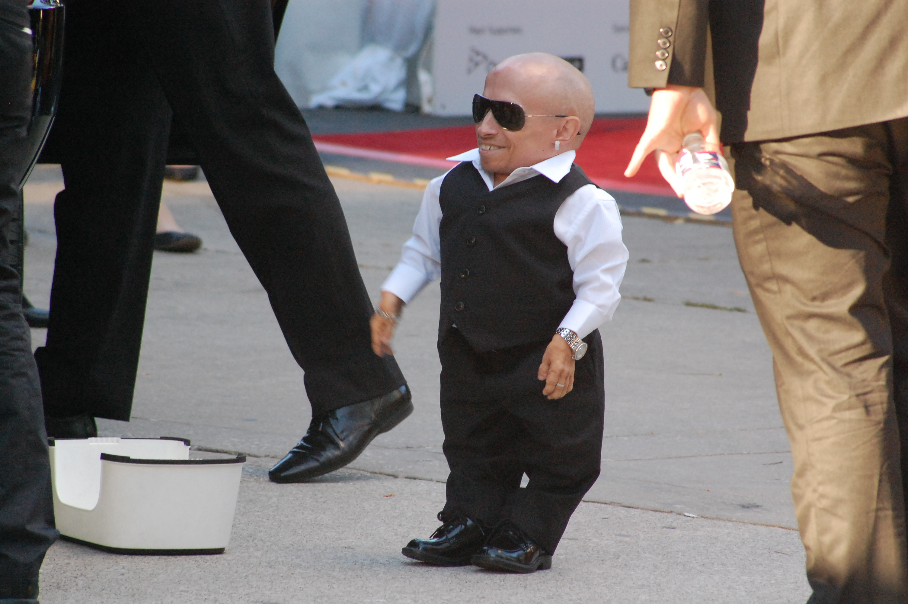 Verne Troyer at the premiere of The Imaginarium of Doctor Parnassus at the Roy Thomspon Hall on September 28, 2009